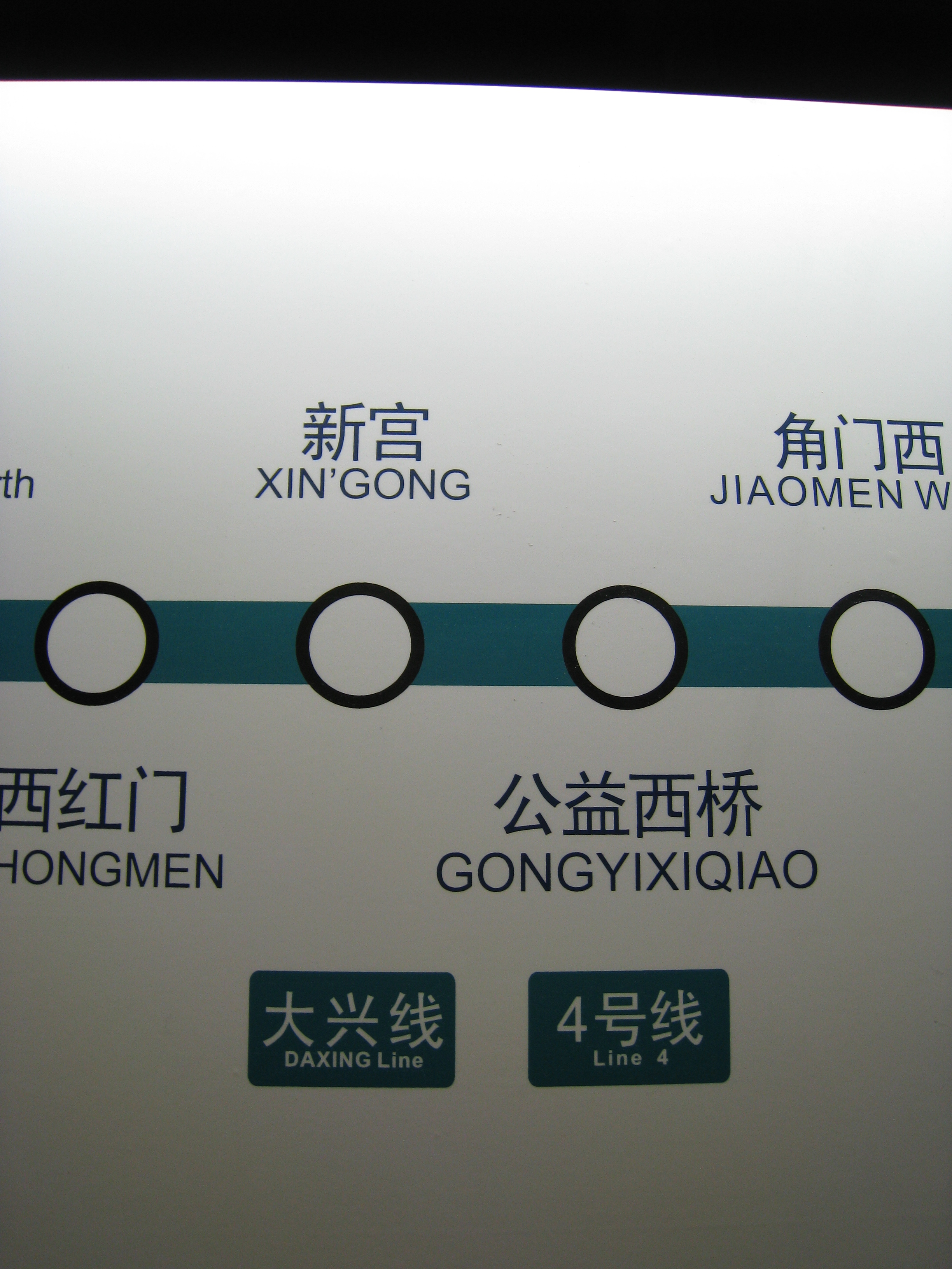 This is the new label on the screen door of Line 4, indicating that although the train goes through all the way from Daxing Line to Line 4, but the southern part is still called "Daxing Line". Photoed in Xiyuan station of Line 4. Note: It's very high to photo, I tried many times to get the best version. 中文（中国大陆）: 北京地铁4号线屏蔽门上的新线路图的一部分。虽然4号线和大兴线贯通运营，但是大兴线仍然称为大兴线。摄于西苑站。 中文（香港）: 北京地鐵4號綫月臺幕門上的新綫路圖的一部分。雖然4號綫和大興綫貫通運營，但是大興綫仍然稱爲大興綫。攝于西苑站。